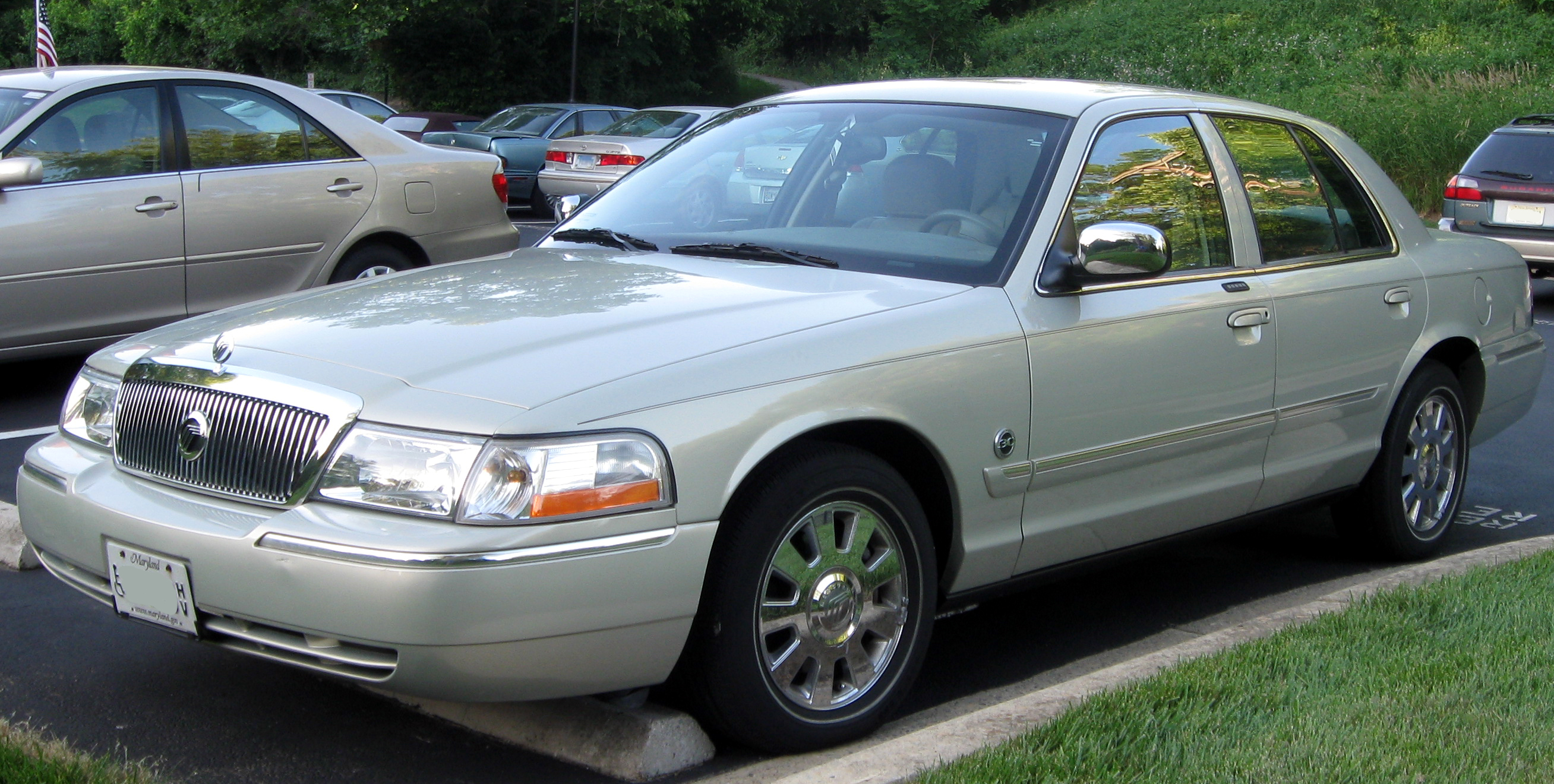 2005 Mercury Grand Marquis photographed in Kensington, Maryland, USA.